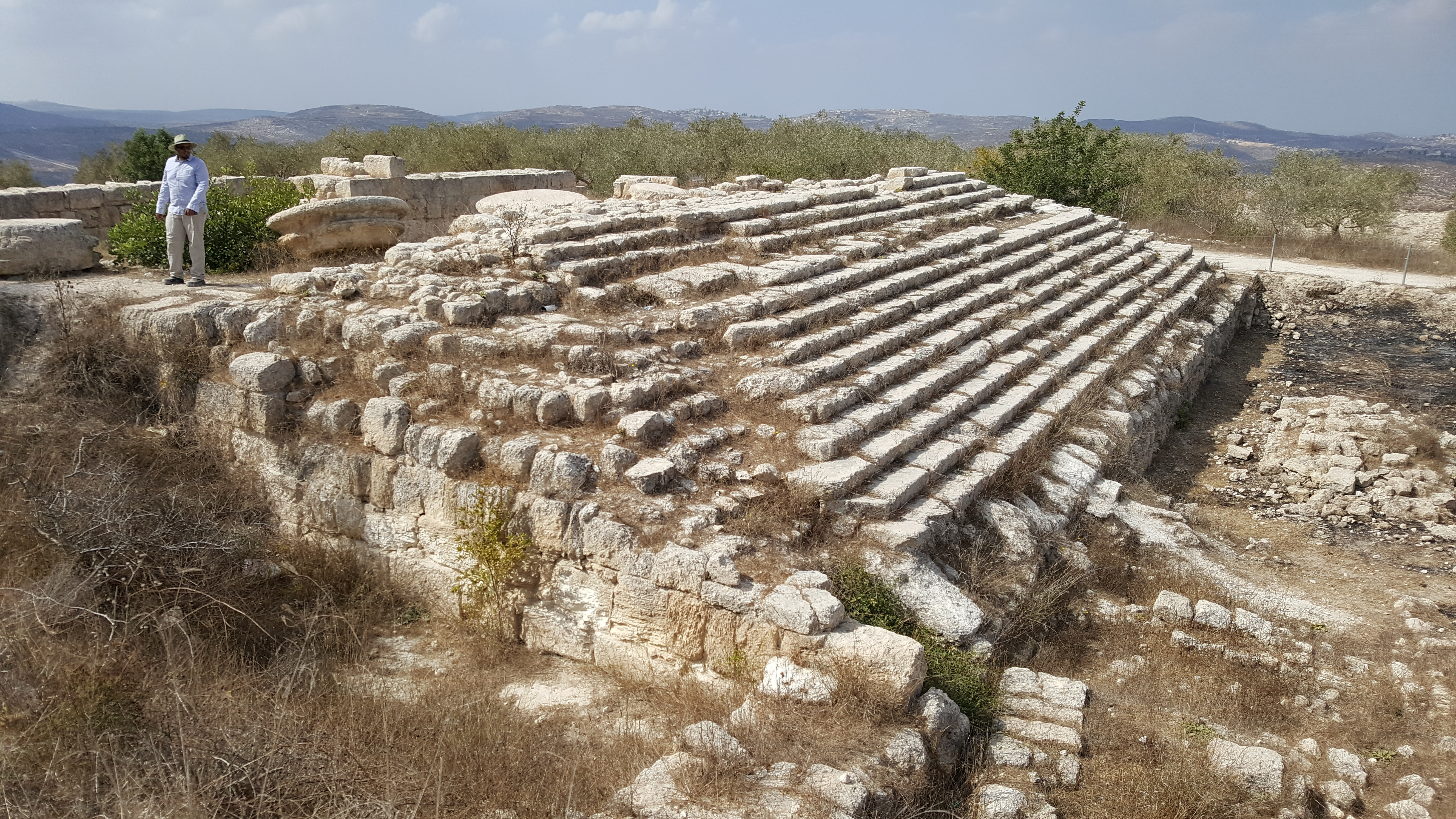 Augusteum